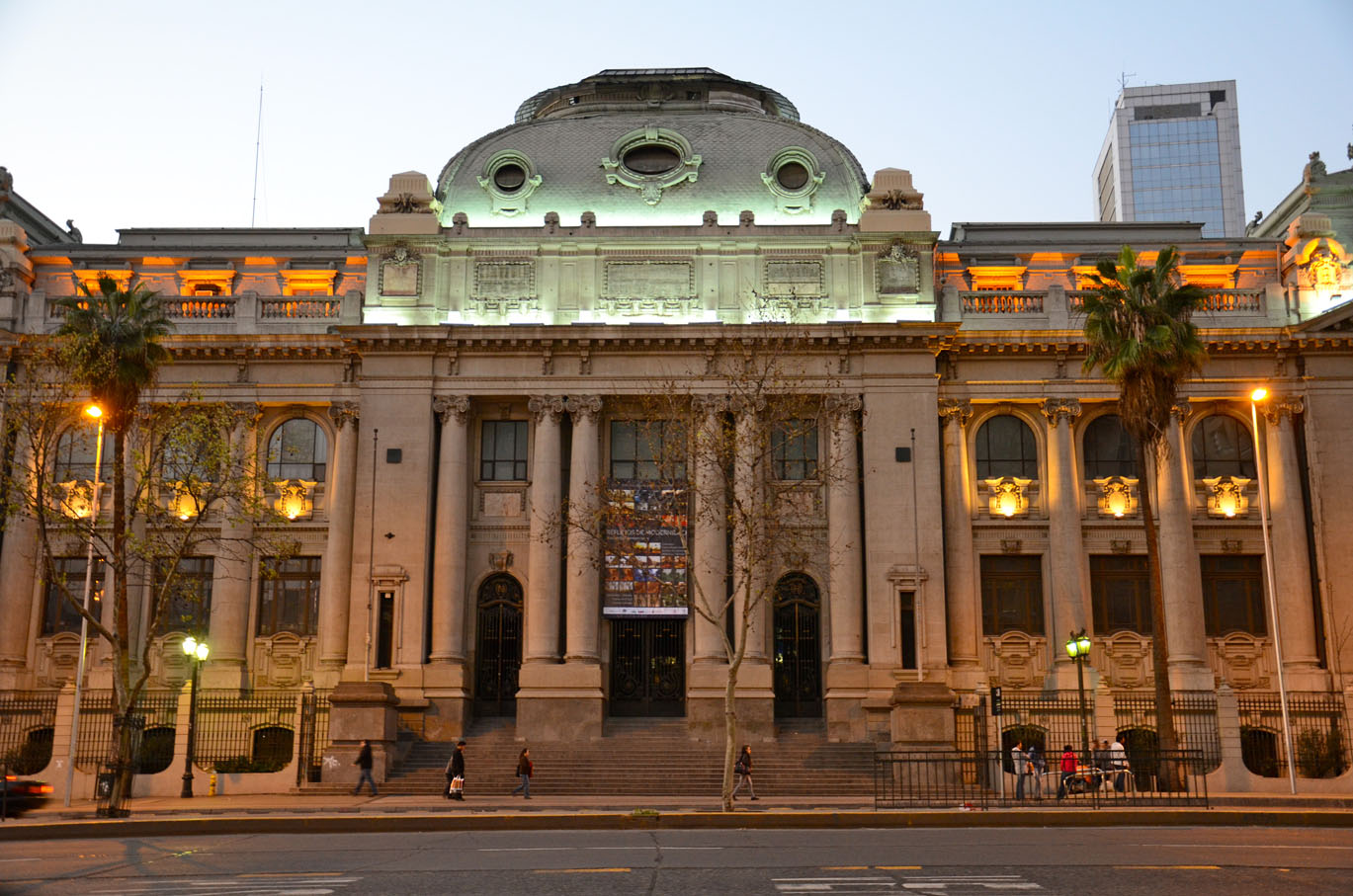 This is a photo of a national monument in Chile: 102